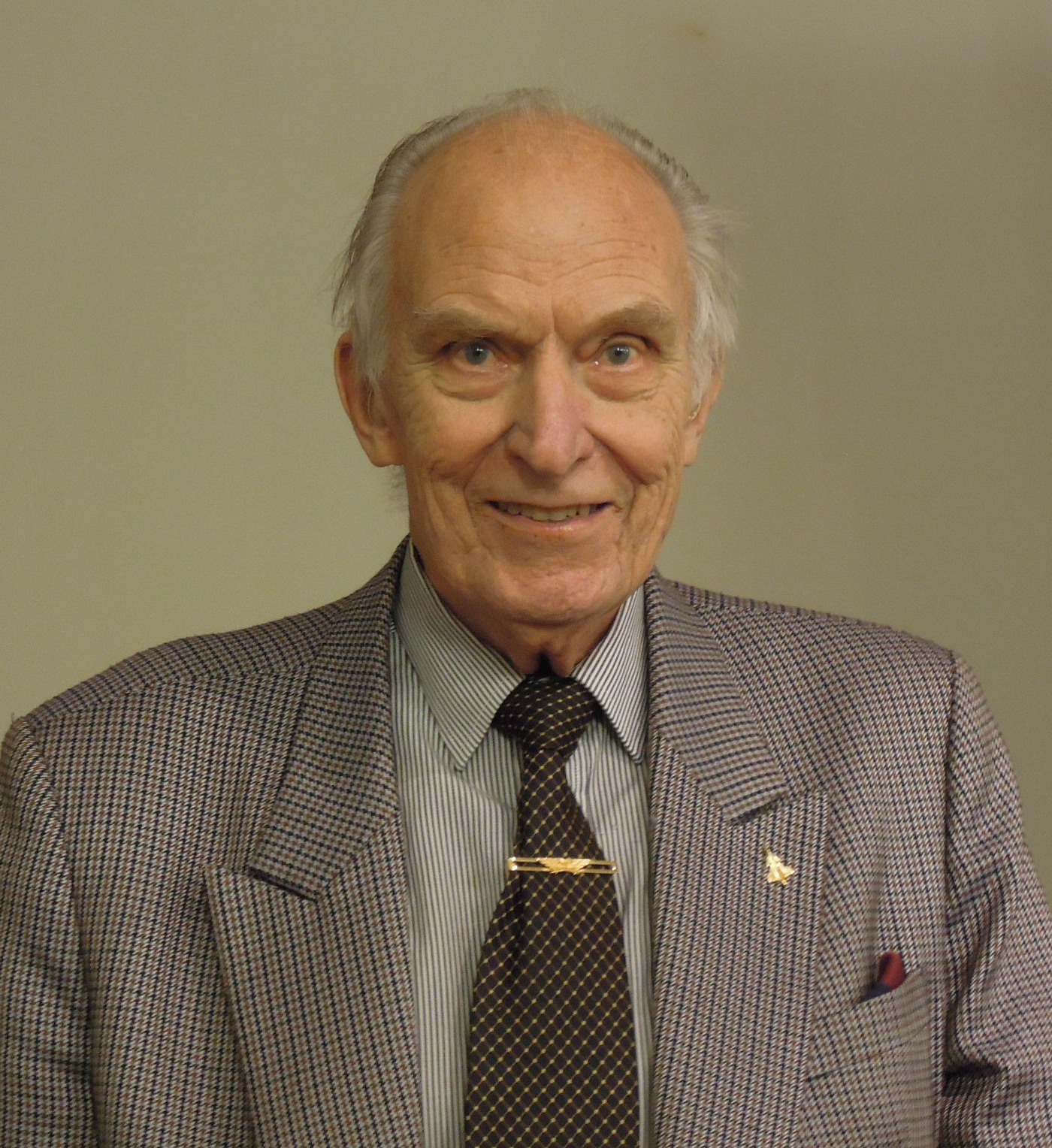 Lieutenant General , and former Commander of the Swedish Air Force until 1988